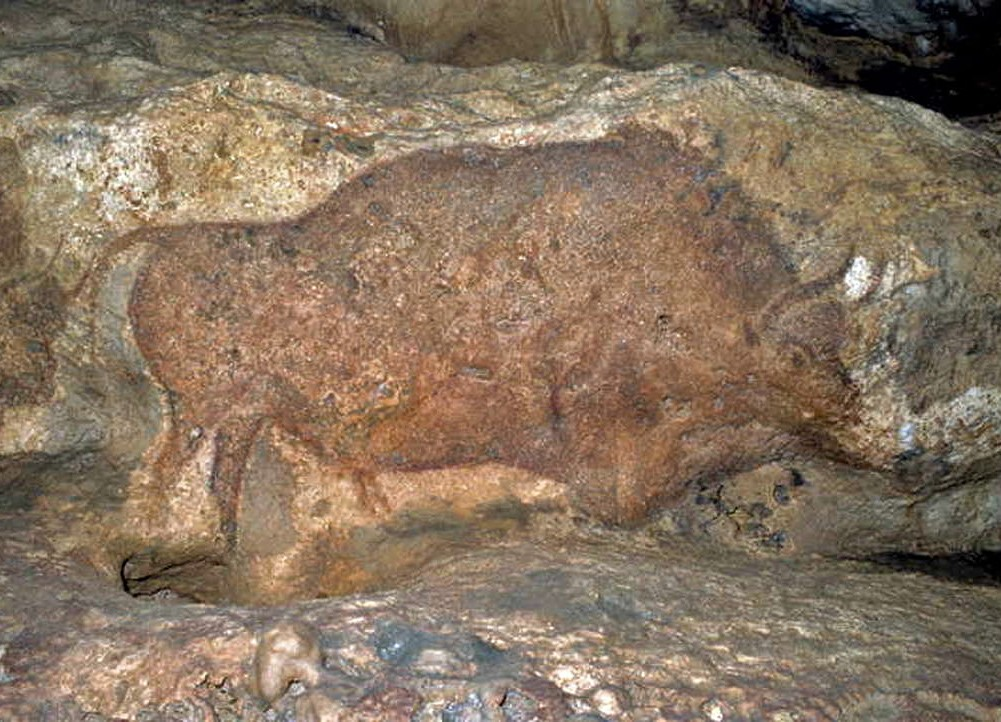 Font de Gaume Cave Painting